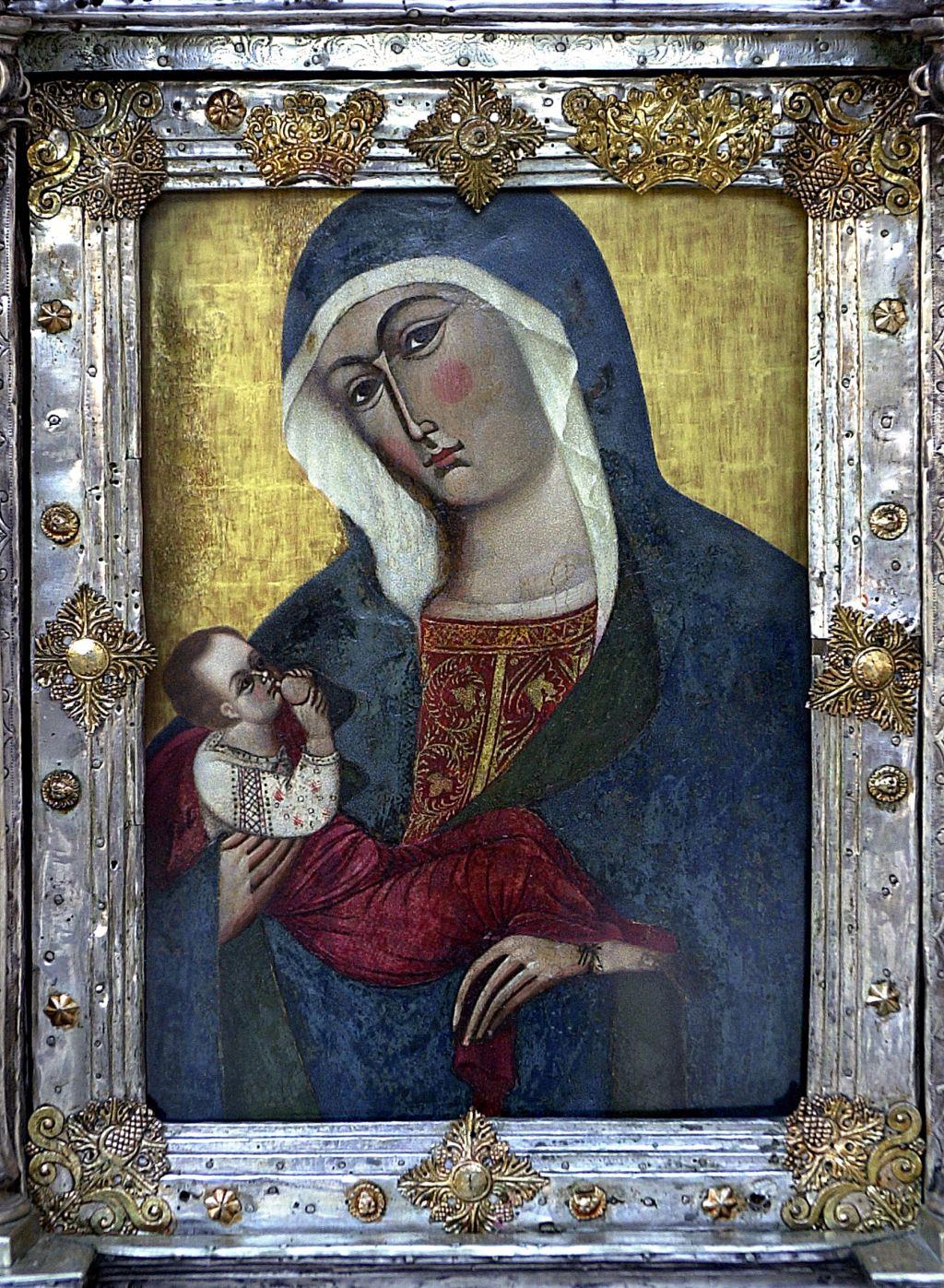 Gospa od Pojisana